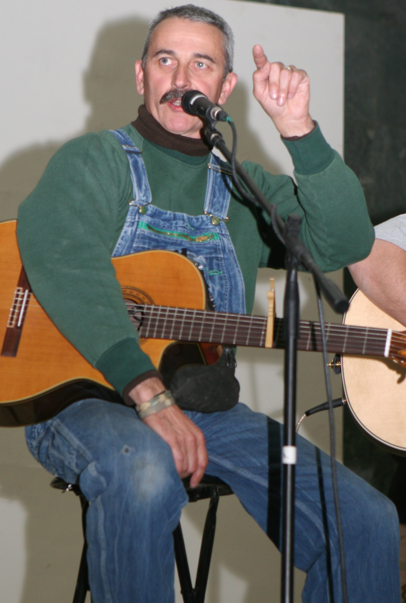 Country artist Aaron Tippin speaks words of encouragement and thanks to the troops during a visit to Camp Fallujah, Iraq Nov. 26, 2005. Before the show, Tippin said performing and interacting with the troops in a combat environment is something very special to him, and to the people involved in the tour.